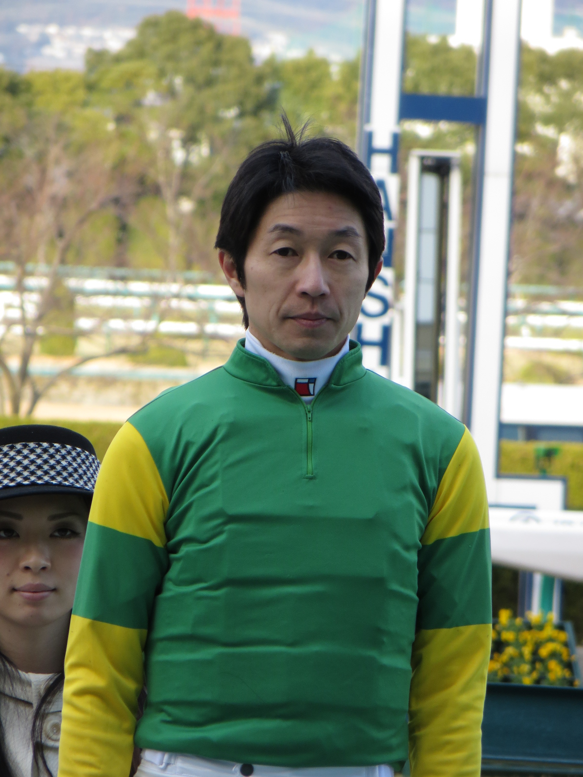 Yutaka Take in Hanshin Racecourse.